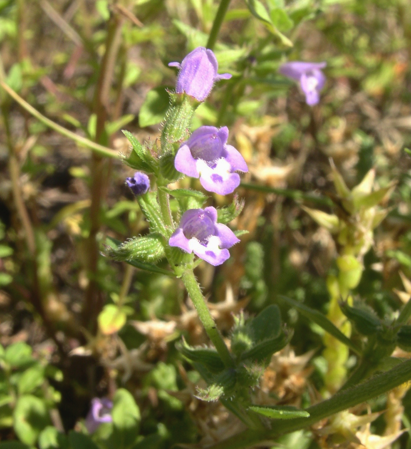 Acinos arvensis flowers in Savonlinna, Finland.